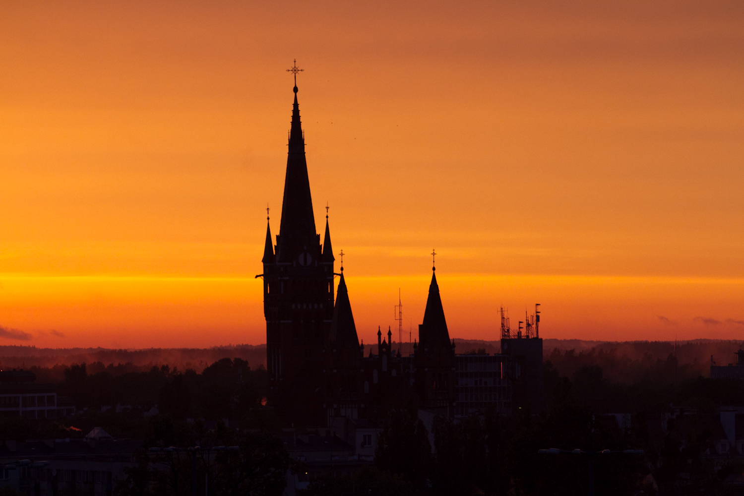 The church of the Sacred Heart of Jesus in Olsztyn.